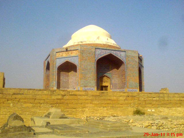 Tomb of Mirza Jani and Mirza Ghazi Baig This is a photo of a monument in Pakistan identified as the SD-105